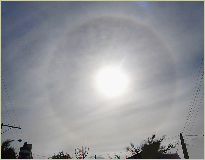 Full solar halo over Porto Alegre, Brazil. This halo lasted for several hours